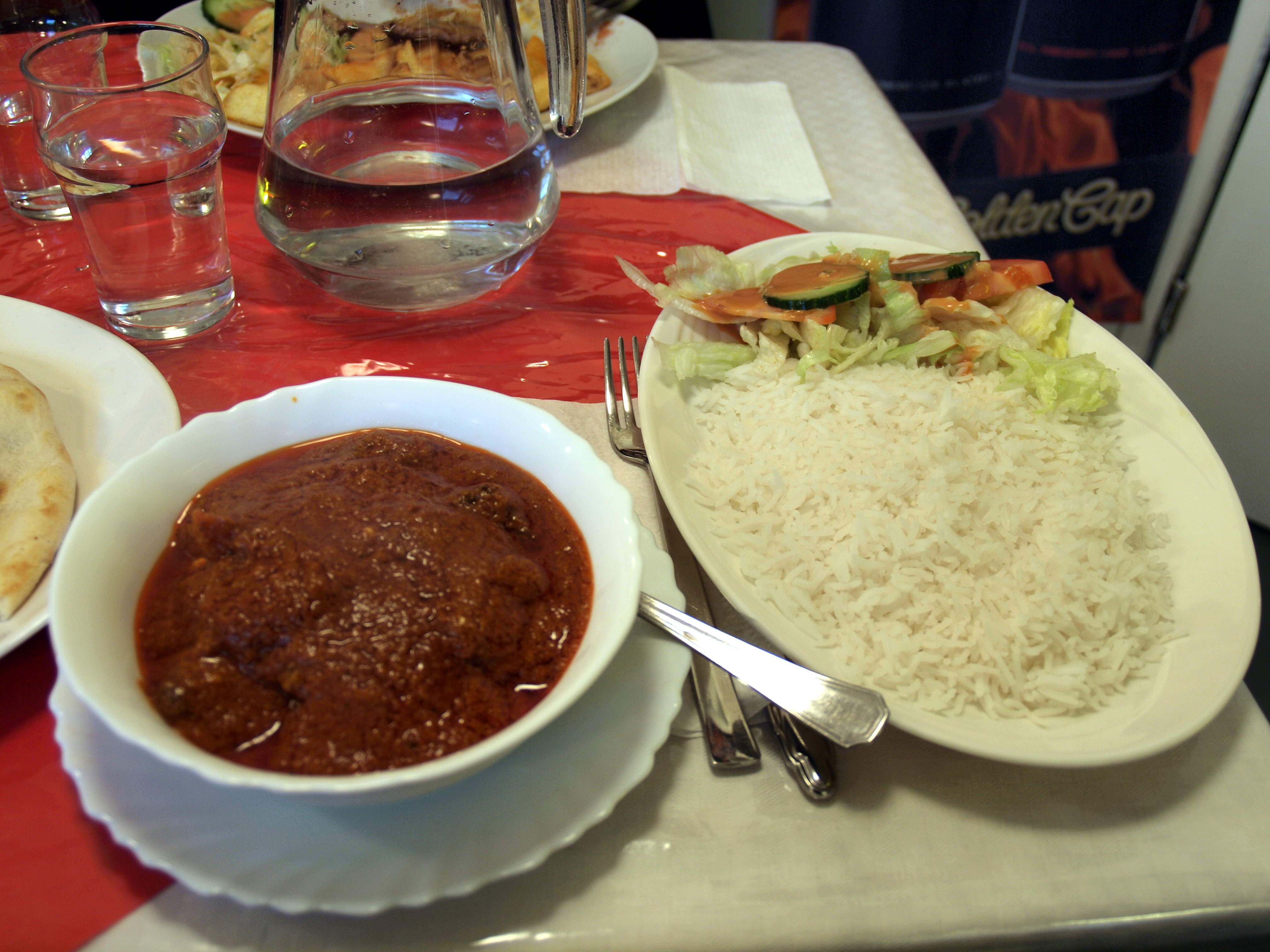 Lamb vindaloo and rice served at a restaurant in Katajanokka, Helsinki, Finland.